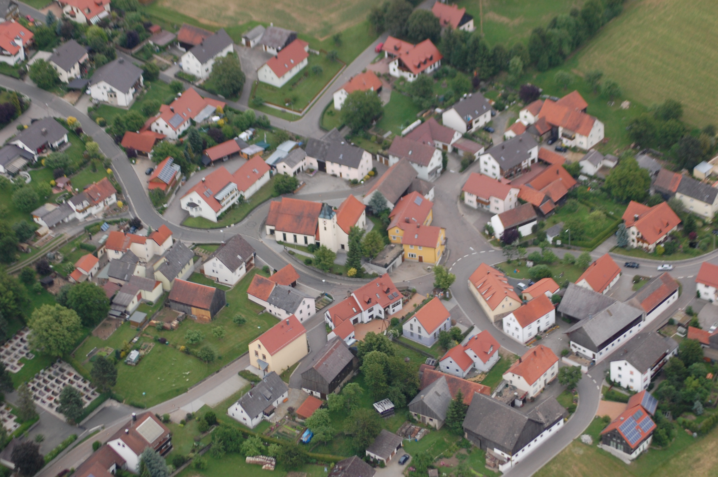 Gleiritsch (2009)